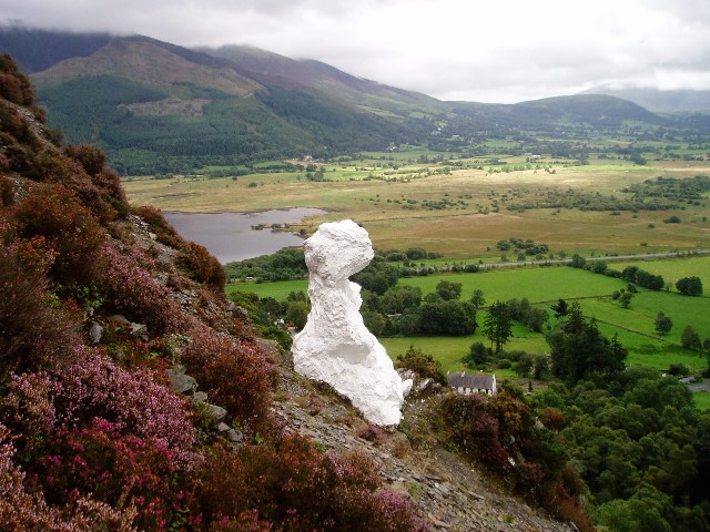 'The Bishop', a spike of rock on the slopes of Barf in the English Lake District that for decades has been whitewashed by the proprietors of the Swan Hotel in the valley below.